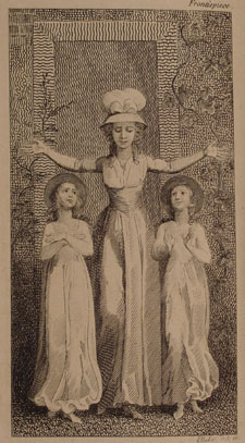 Frontispiece to the 1791 edition of Mary Wollstonecraft's Original Stories from Real Life